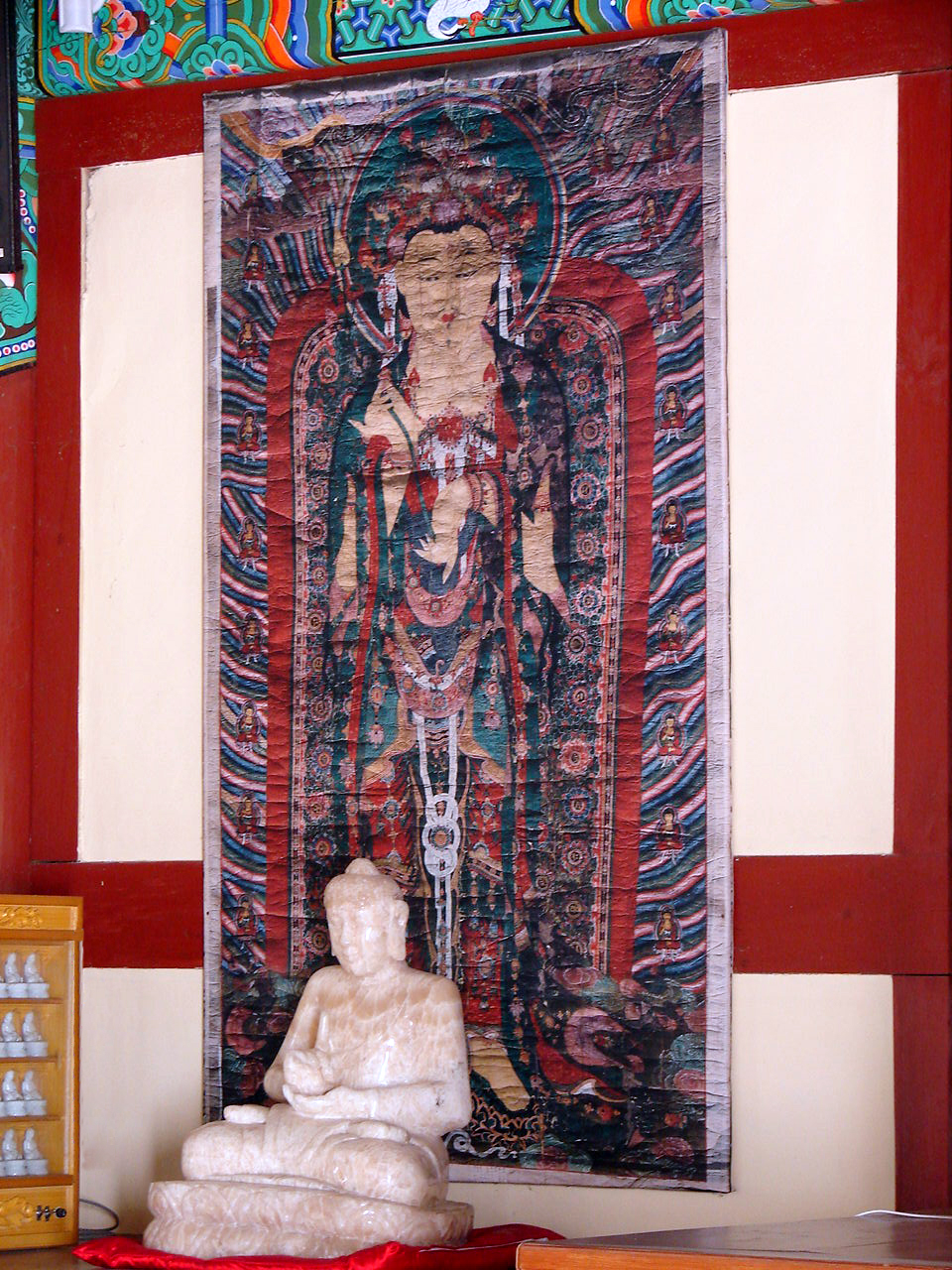 Geumdangsa (금당사 - Buddhist Temple) in the Maisan (Hourse Ear Mountain) in Jinan County, North Jeolla Province, South Korea. Gwaebultang, Goddess of Mercy (portrait), painted 1682, at Geumdangsa is a representative example of a hanging Buddhist painting. The painting measures 9 meters/30 feet high and 5 meters/16.4 feet wide. In the past whenever this area experienced an extended drought, the Geumdangsa monks would gather and conduct prayer rituals appealing for rain in the presence of the painting, which consistently resulted in a rainfall shortly thereafter. Treasures #1266.